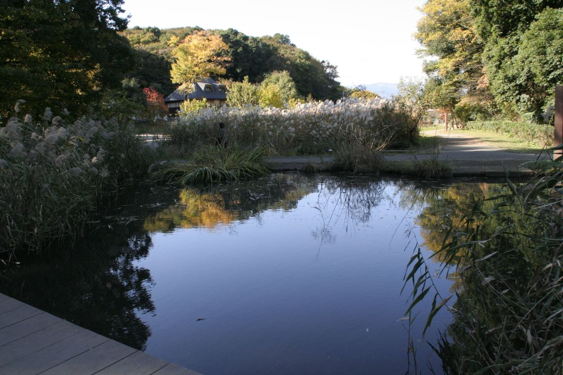 A pond at 座間谷戸山公園.